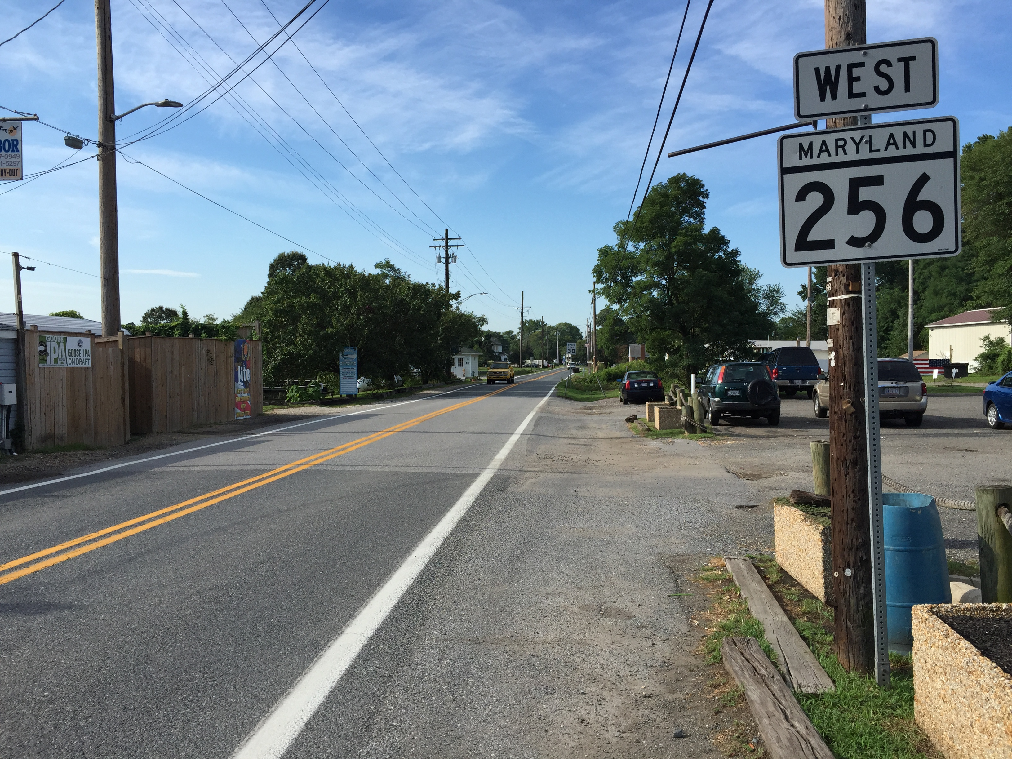 View west along Maryland State Route 256 (Deale Road) at Rockhold Creek Road in Deale, Anne Arundel County, Maryland